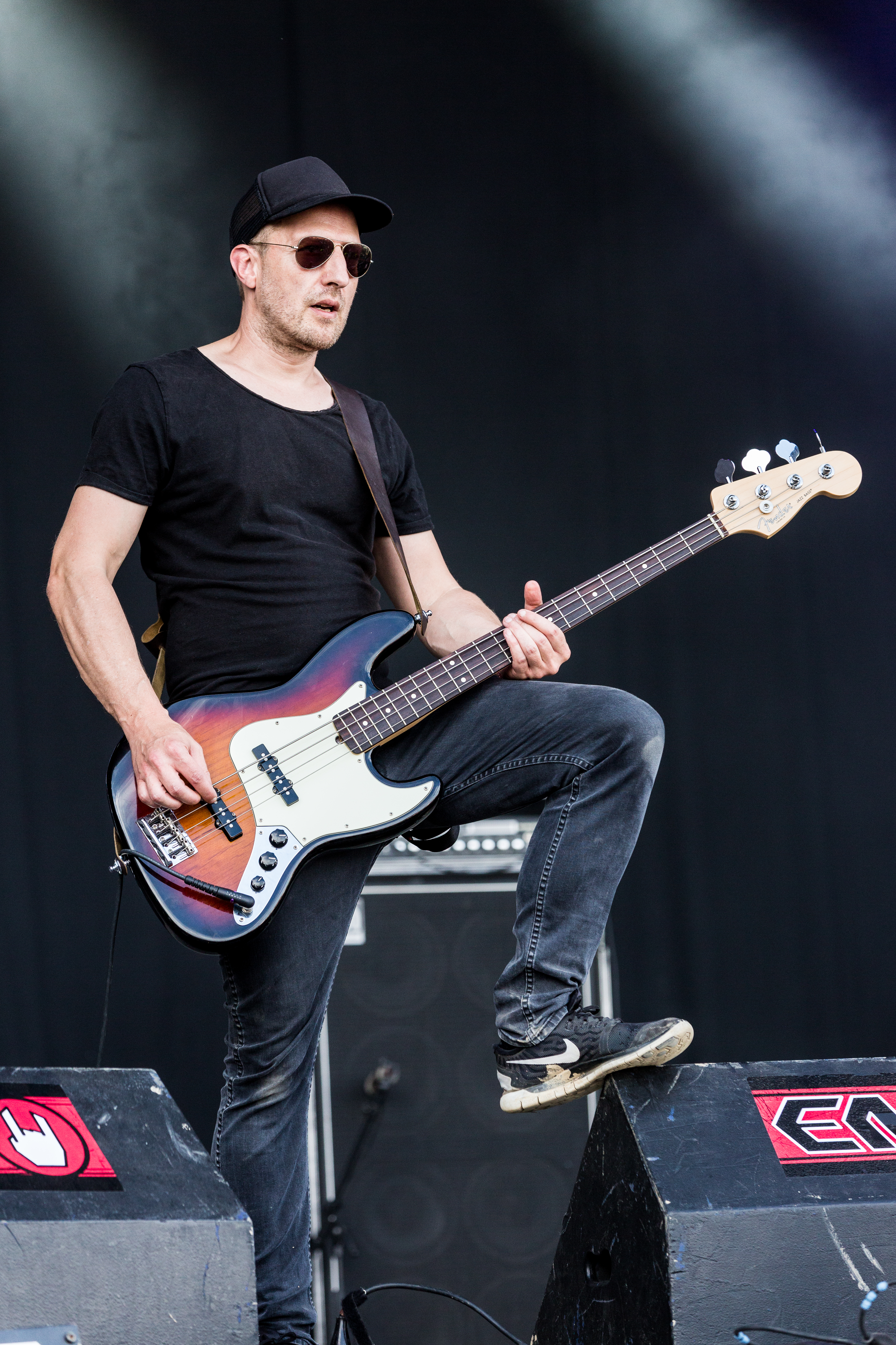 The German post-rock band Long Distance Calling at the Summer Breeze Open Air 2017 in Dinkelsbühl/Germany.